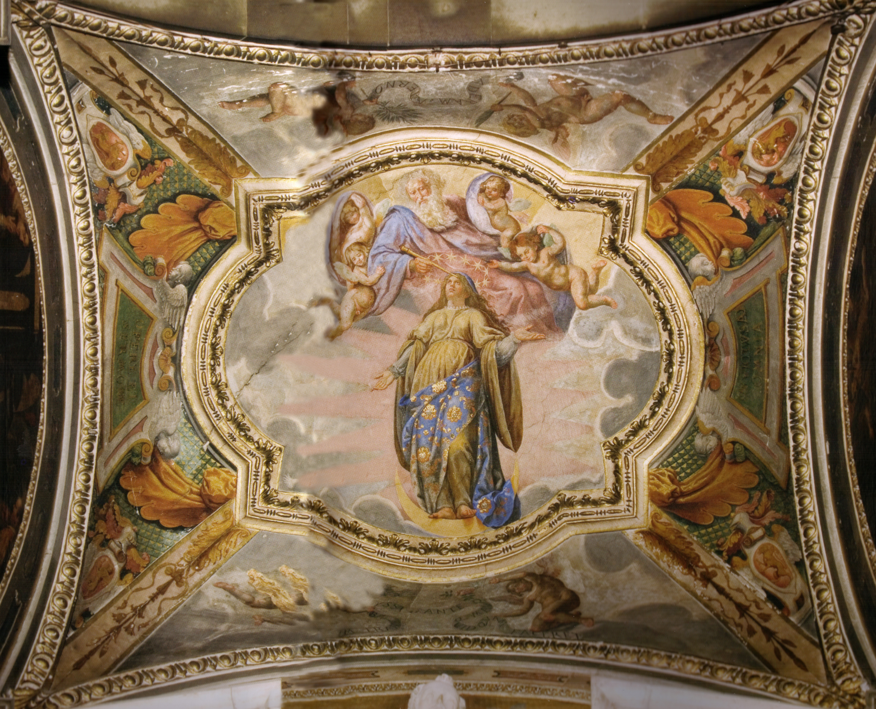 Sigismondo Coccapani (1583–1643) Description Italian painter Date of birth/death10 August 15833 March 1643Location of birth/deathFlorenceFlorenceWork locationFlorence, RomeAuthority control VIAF: 18149780 LCCN: no2003052709 GND: 124161227 ULAN: 500020261 ISNI: 0000 0001 1602 0485 WorldCat l'immacolata e l'eterno tra angeli